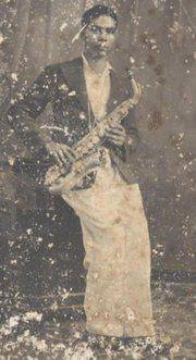 Piano player and band leader